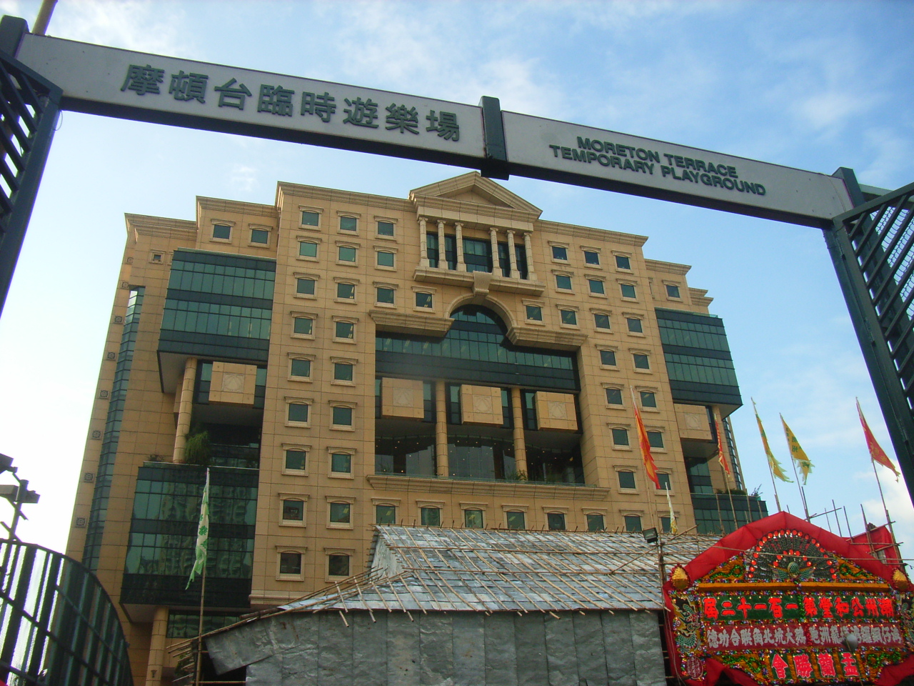 2009年9月zh:銅鑼灣摩頓台第112屆zh:盂蘭勝會 摩頓台臨時遊樂場